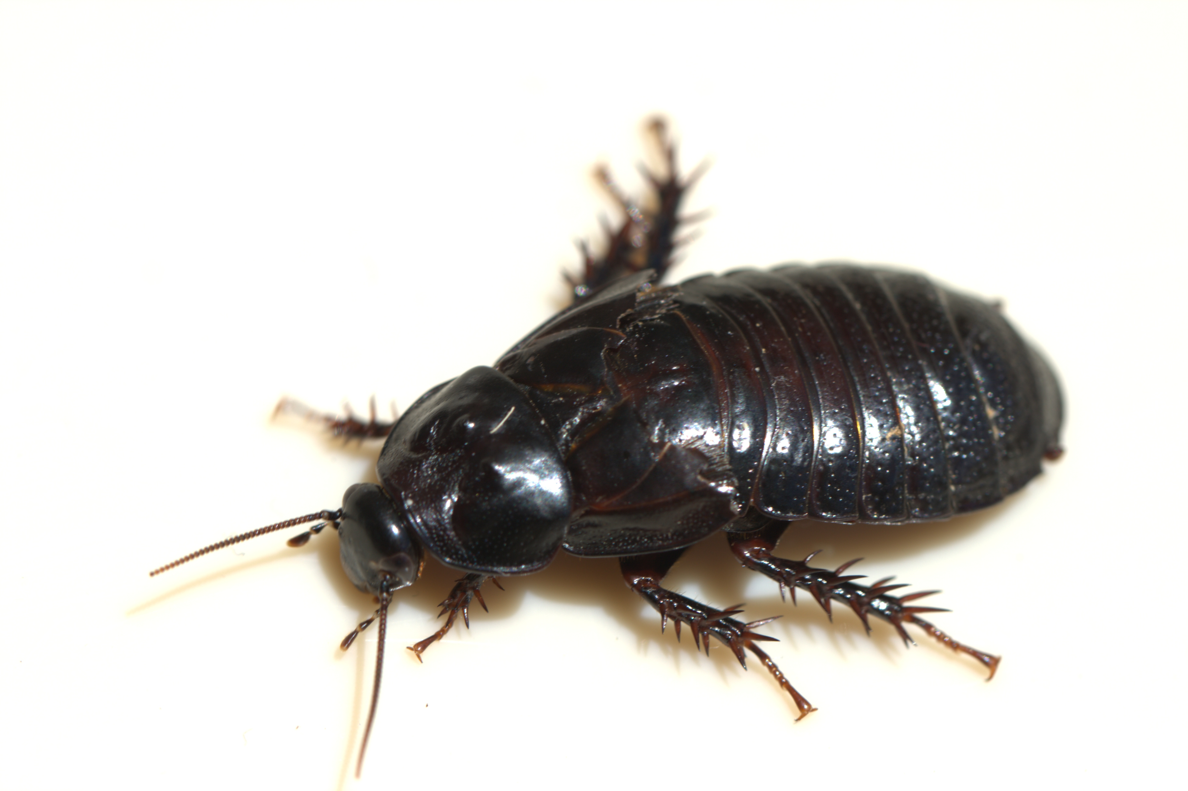 Australian Wood Cockroach (Panesthia cribrata or Panesthia australis?)